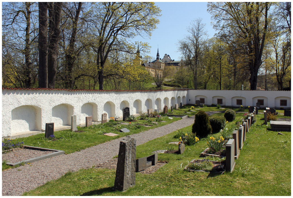 Tyresö church, Tyresö municipality, Sweden